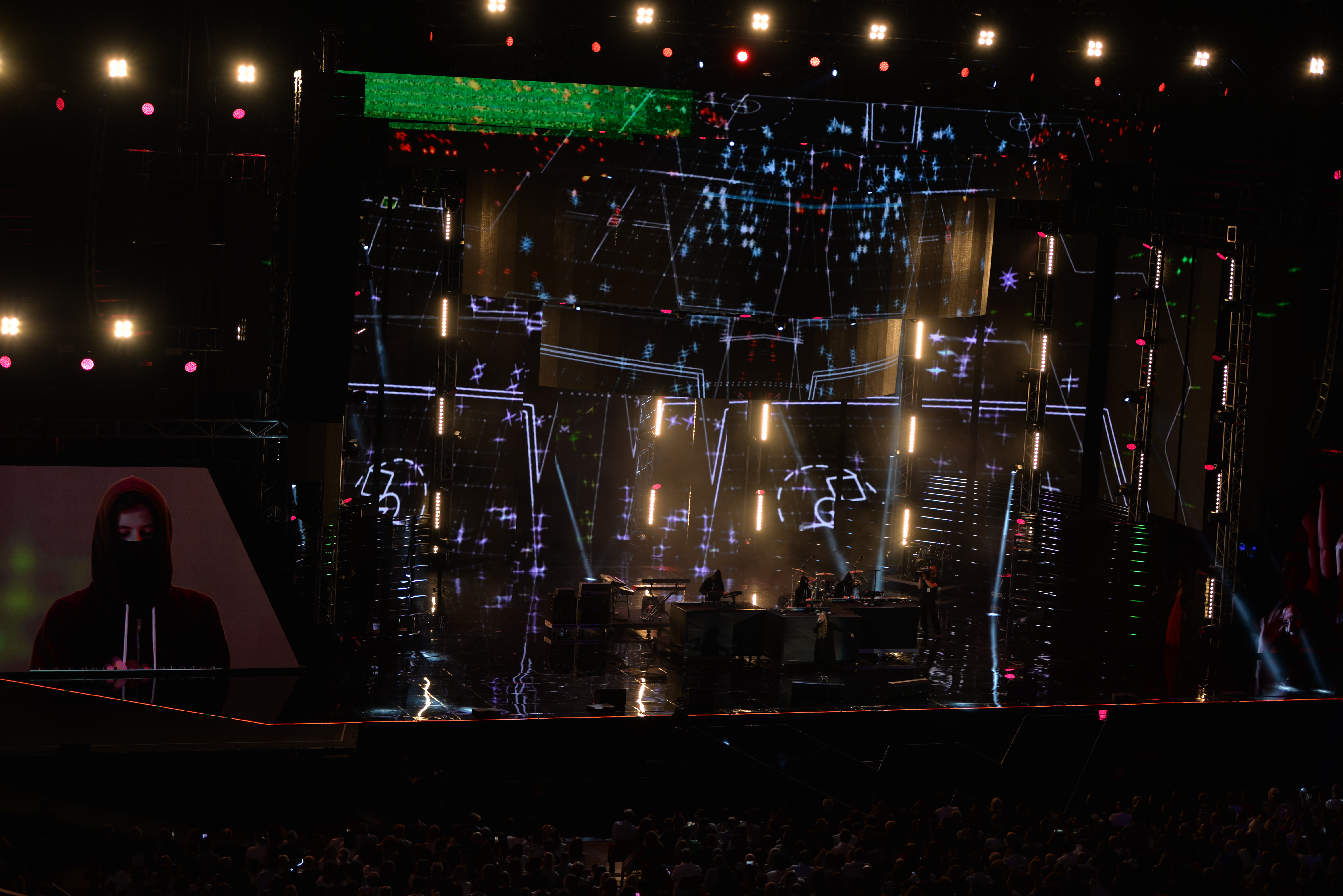 Alan Walker at the Wind Music Awards 2016 ceremony at the Verona Arena